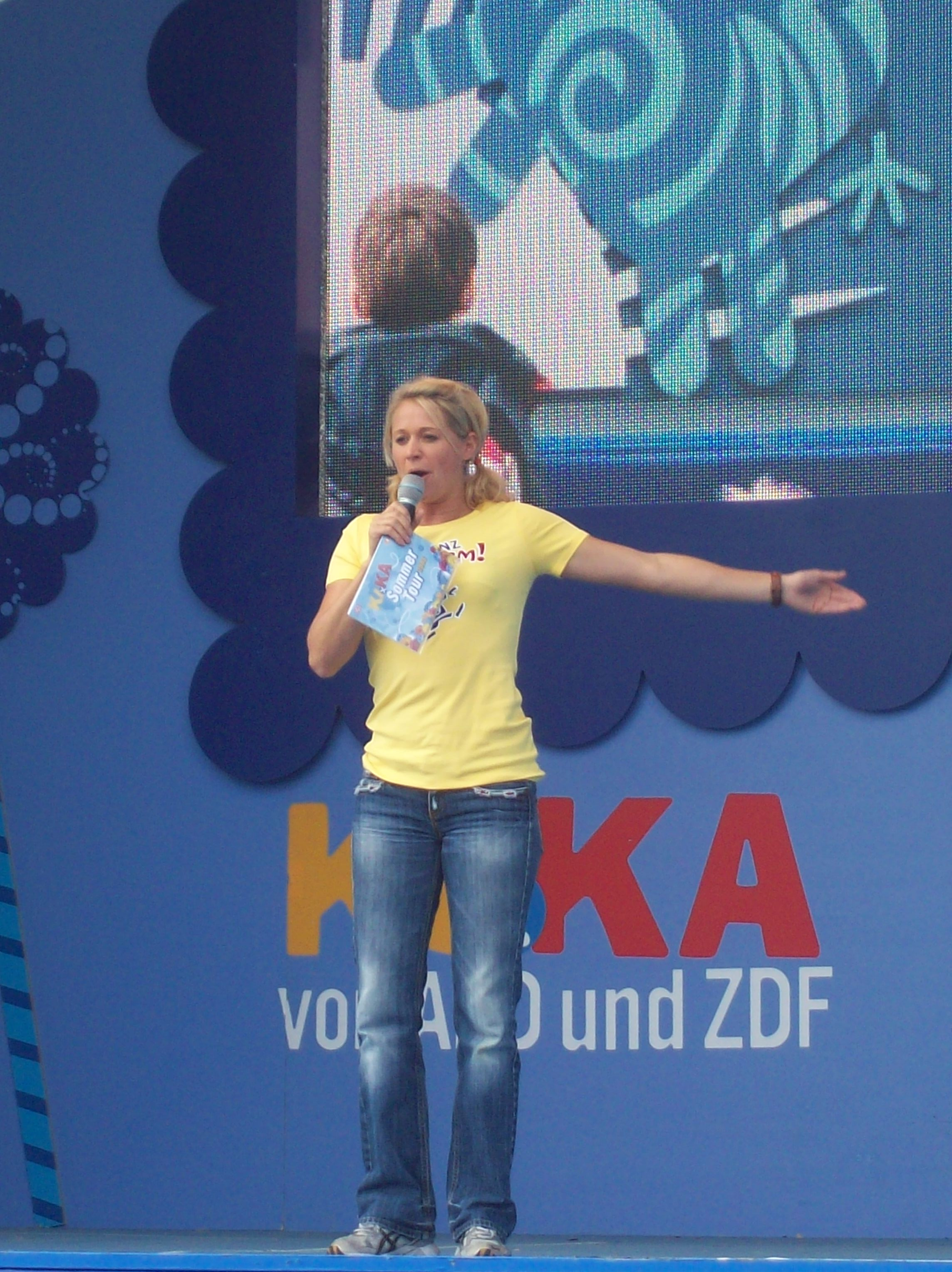 Singa Gätgens at "Kika Sommertour"-event 2008 in Leverkusen